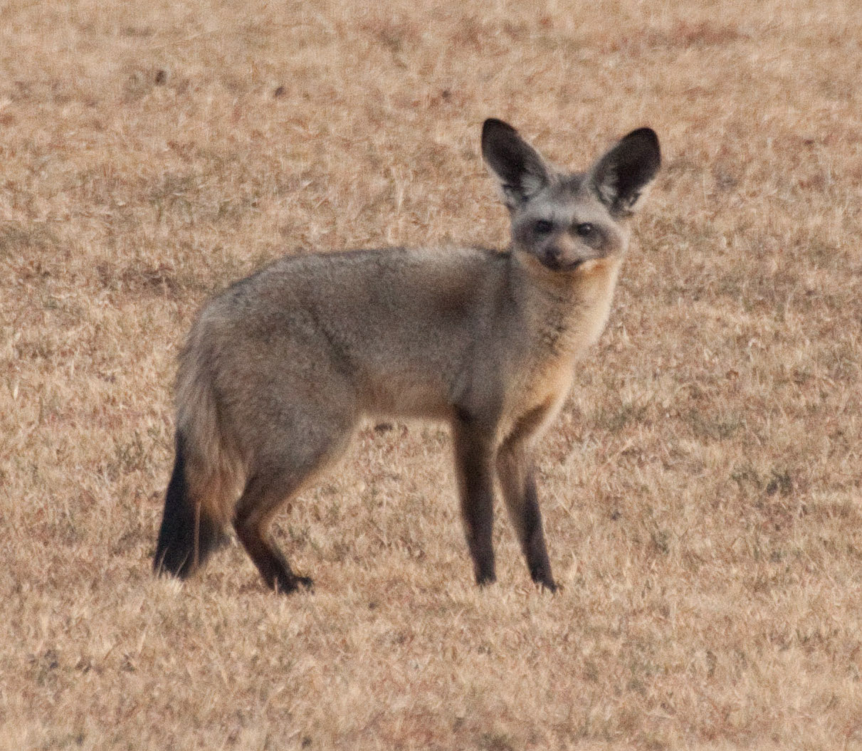 A bat-eared fox in Kenya.